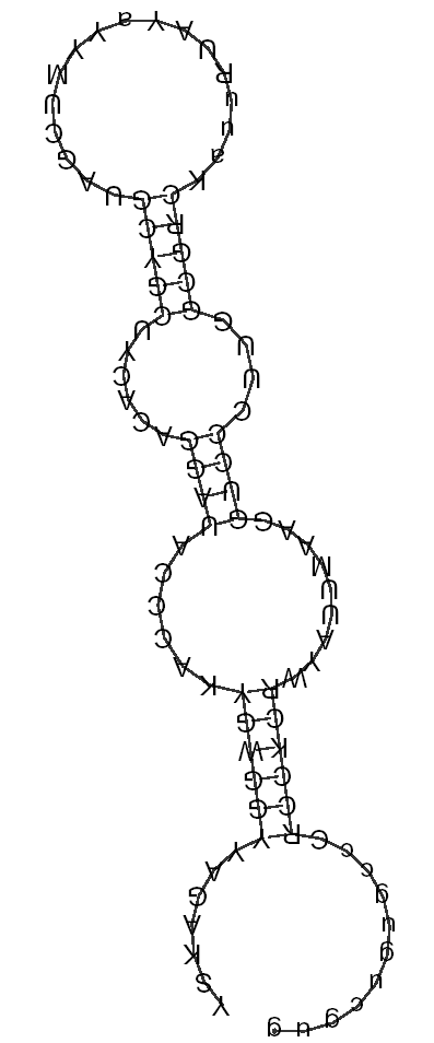 RNA secondary structure of TB6Cs1H4 generated by the WAR server( It is the consensus structure from 8 Trypansomatid species -Leishmania major, Leishmania infantum, Leishmania braziliensis, Trypanosoma brucei, Trypanosoma brucei gambiense, Trypanosoma cruzi, Trypanosoma congolense, Trypansoma vivax